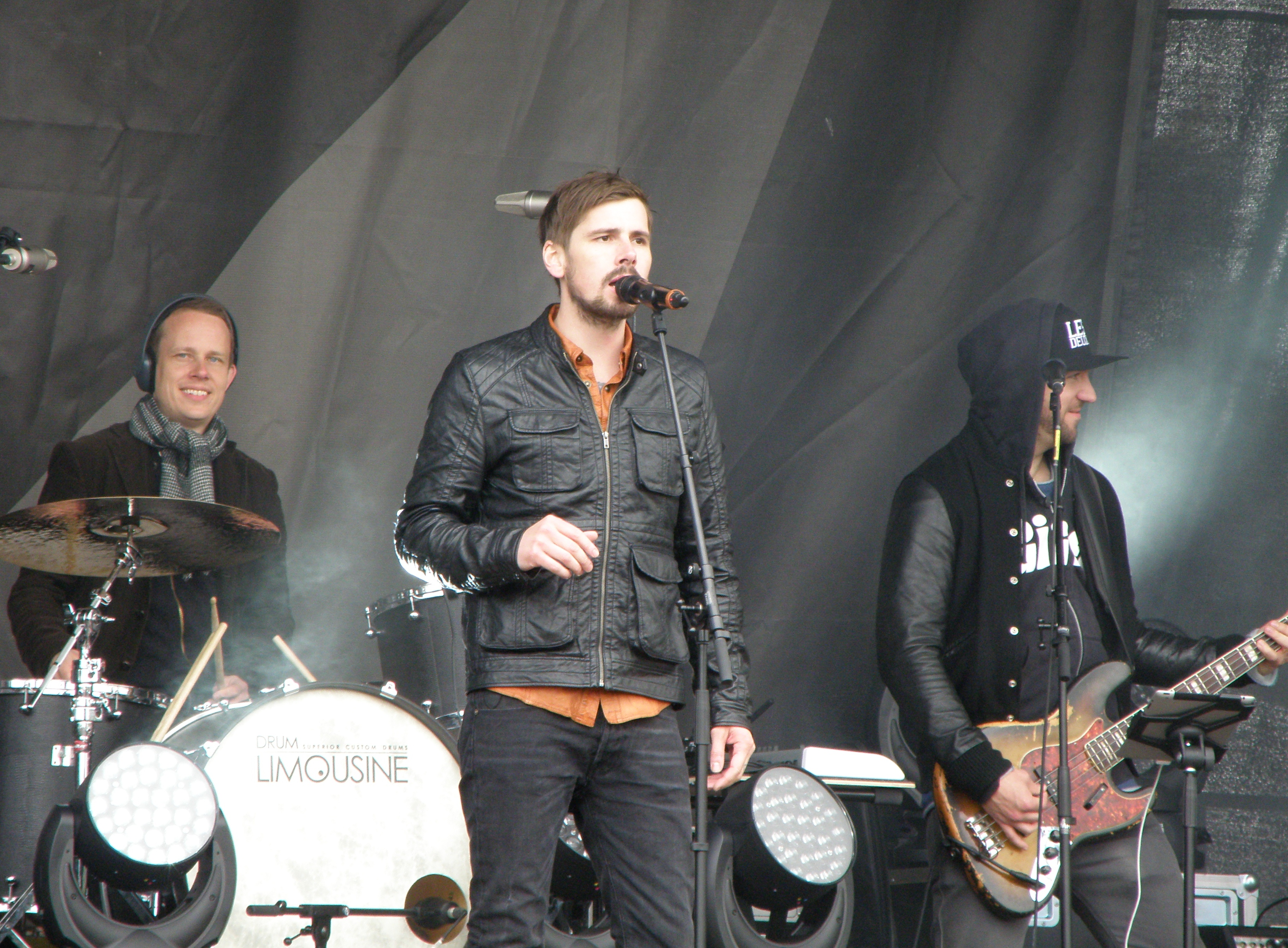 Sveinur Gaard Olsen participated in the X Factor singing contest in Denmark in 2012. He made it to the final and became number three. He comes from Tórshavn, Faroe Islands. He used to be a drummer, this was his break through as a singer. This photo was taken at the X-Factor concert in Legoland Billund in May 2012. Number one, two, three and four were performing along with guest star Basim, who participated in the X Factor Denmark 2008. The other three X Factor singers at this concert were Morten Benjamin (number four), Line Larsen (number two) and the winner Ida Østergaard Madsen.Føroyskt: Sveinur Gaard Olsen er ein sangari úr Havn, sum gjørdist kendur, tá hann luttók í X Factor sangkappingini hjá DR1 og gjørdist nummar trý. Henda myndin er tikin í Legoland Billund, tá hann framførdi har saman við Idu, Line, Morten Benjamin og Basim. Ida vann kappingina, Line gjørdist nummar tvey og Basim var við sum gestasangari, hann luttók í X Factor 2008 í Danmark. Sveinur hevur fyrr verið trummusláari.